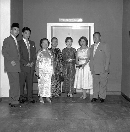 The family of the Tunku Mahkota of Johor, Tunku Ismail in a popular nightspot celebrating the birthday of Dr Heah Hock Chye. From left: Tunku Mahmud Iskandar, Tunku Abdul Rahman, (died 1989), Sultanah Aminah, Cik Kalsom bt Abdullah (Josephine Trevorrow, wife to Tunku Mahmud Iskandar), Tunku Maimunah, Tunku Ismail, the Tunku Mahkota of Johor.